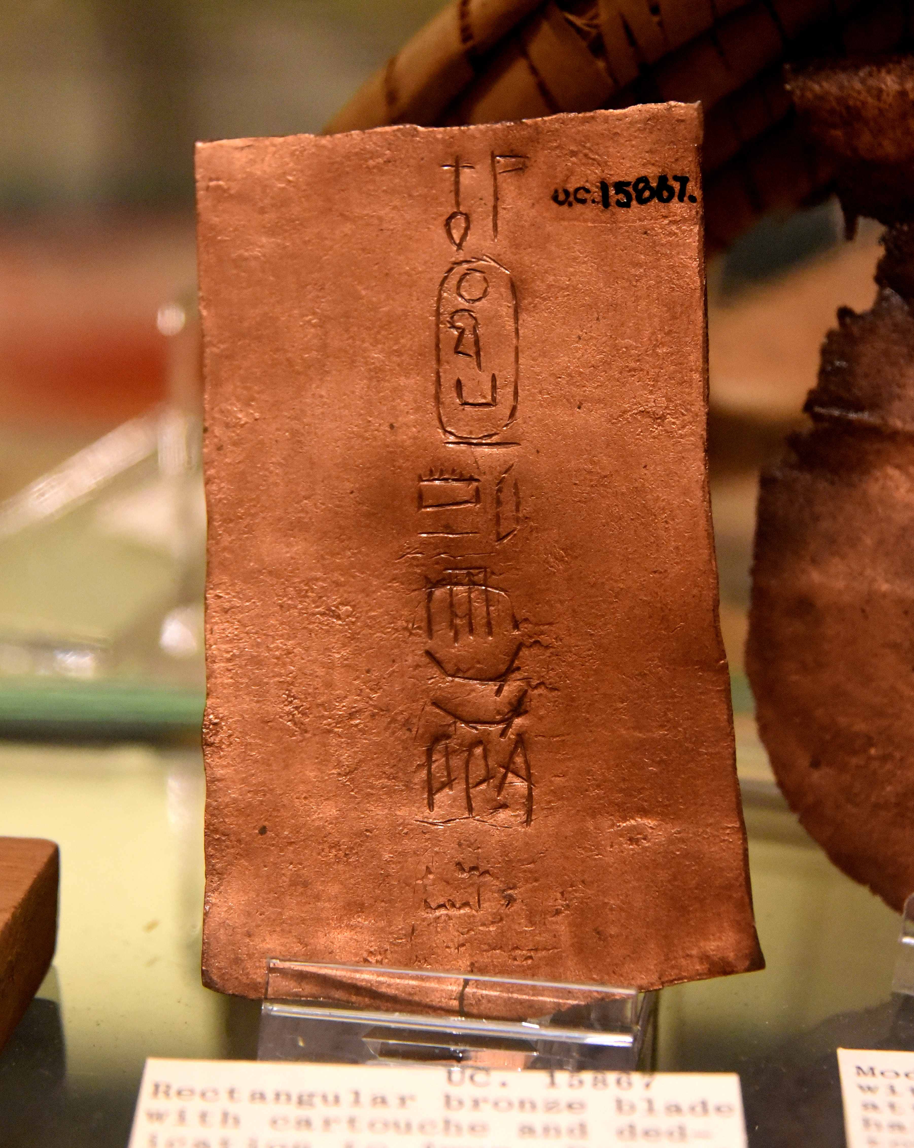 From a foundation deposit in "a small pit covered with a mat" found at Deir el-Bahri, Egypt. 18th Dynasty. The Petrie Museum of Egyptian Archaeology, London. With thanks to the Petrie Museum of Egyptian Archaeology, UCL.